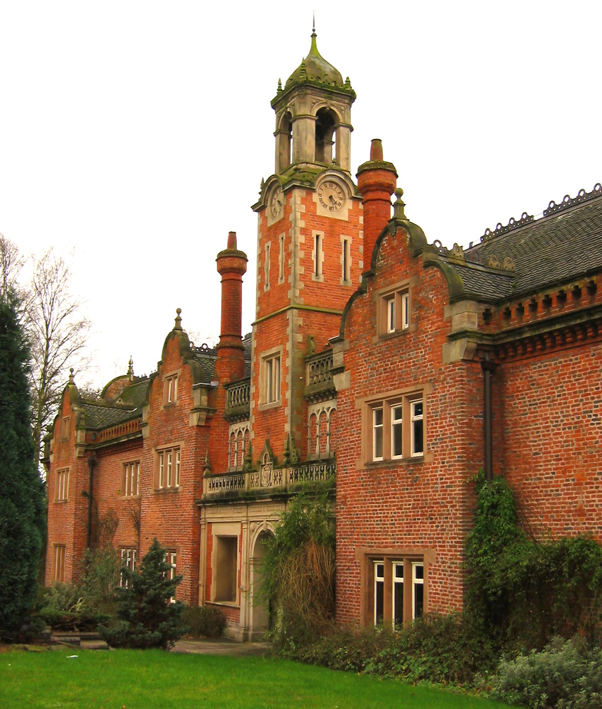 Former stable block, Crewe Hall, near Crewe, Cheshire